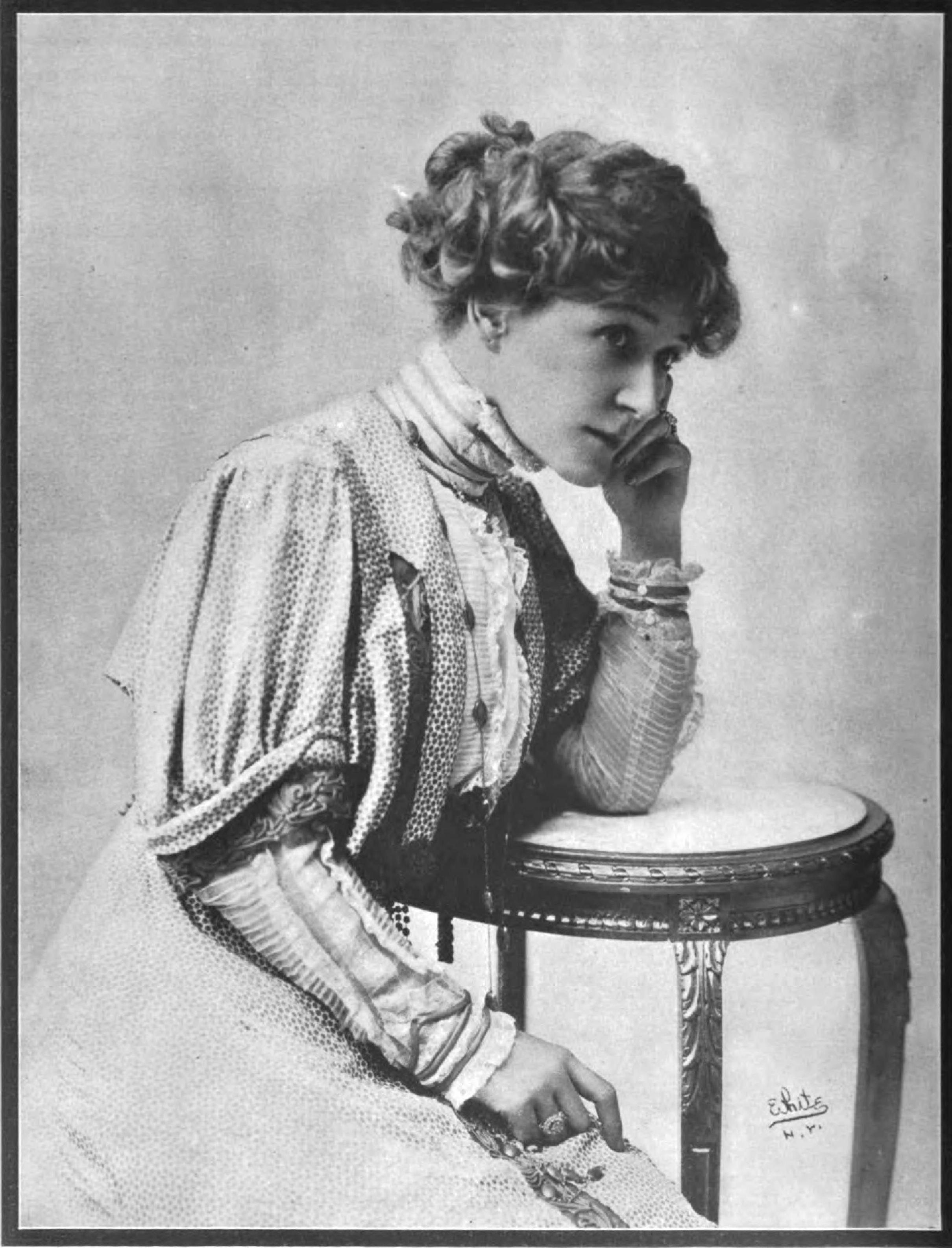 Rose Stahl (b. October 29, 1868/1870 - 1955) was a Canadian/American stage actress